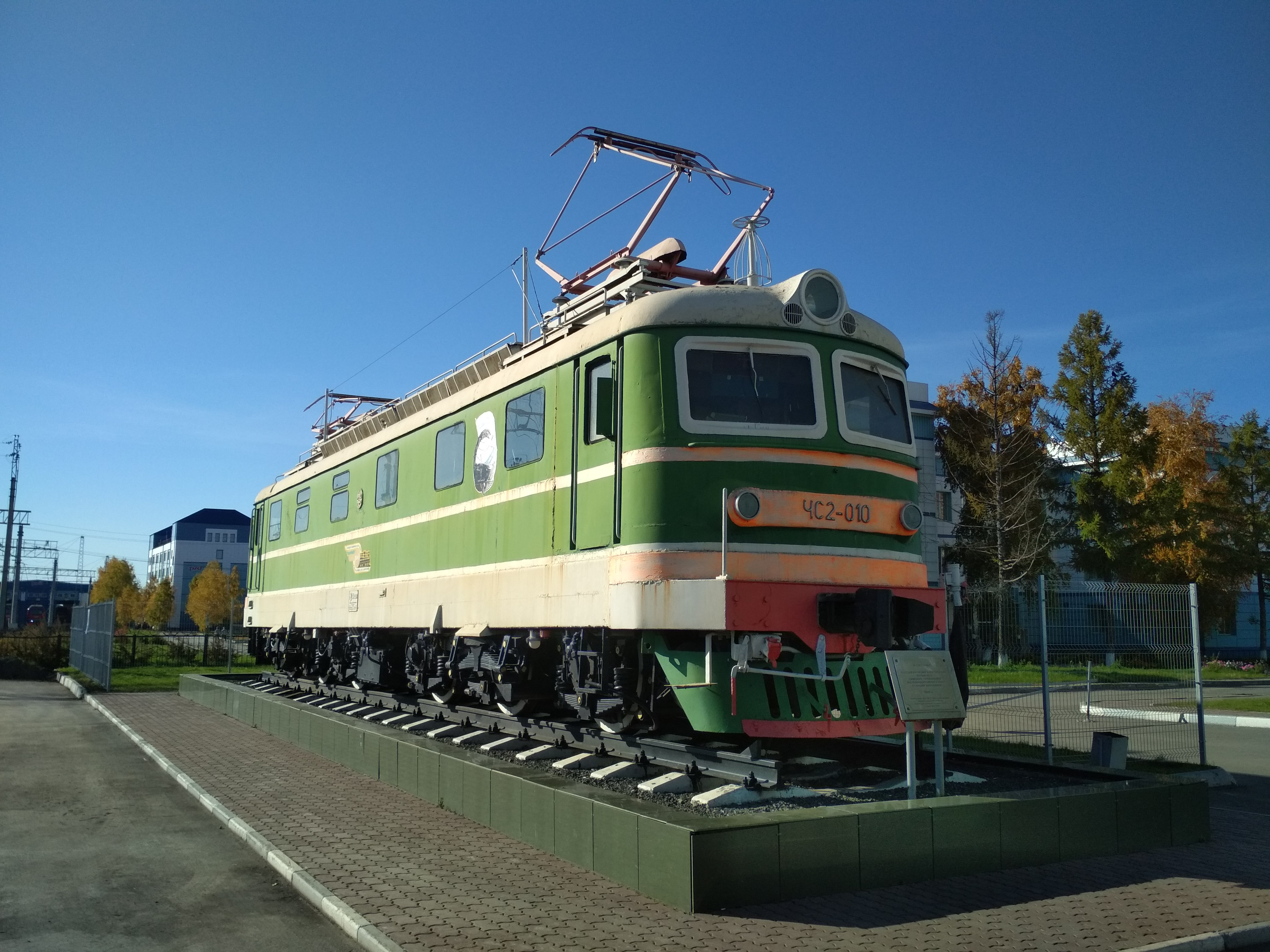 Electric locomotive ChS2-010 at the station Barabinsk, Novosibirsk region, Russia